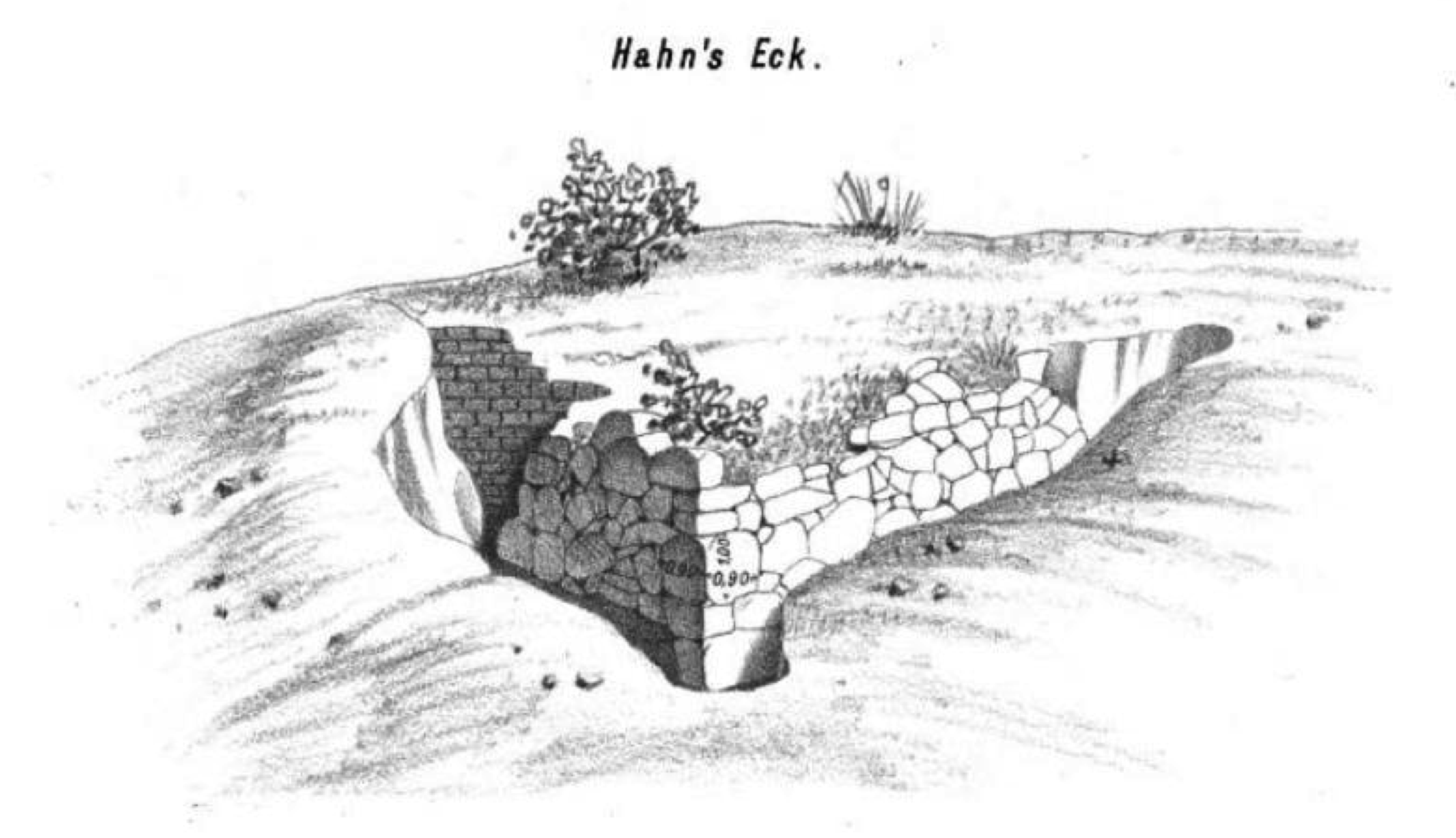 Drawing of excavations of Hahn close to Troy by Ziller